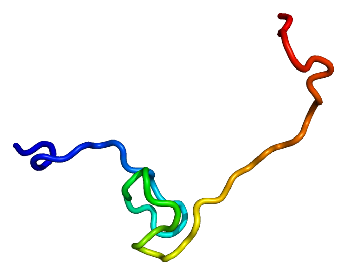 Structure of the MDM4 protein. Based on PyMOL rendering of PDB 2cr8.